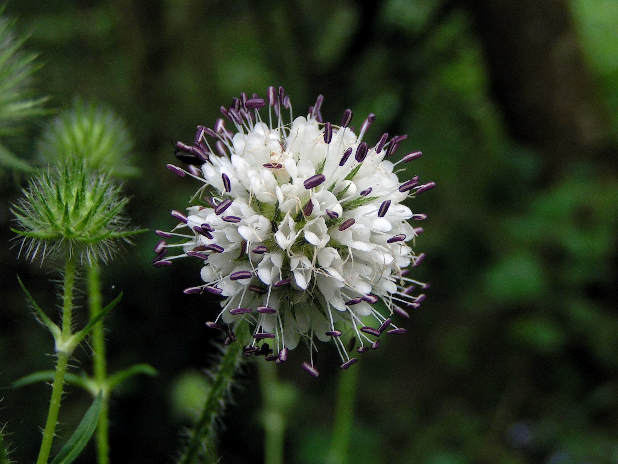 Dipsacus pilosus by Pethan July 27, 2005 Mosel, Germany